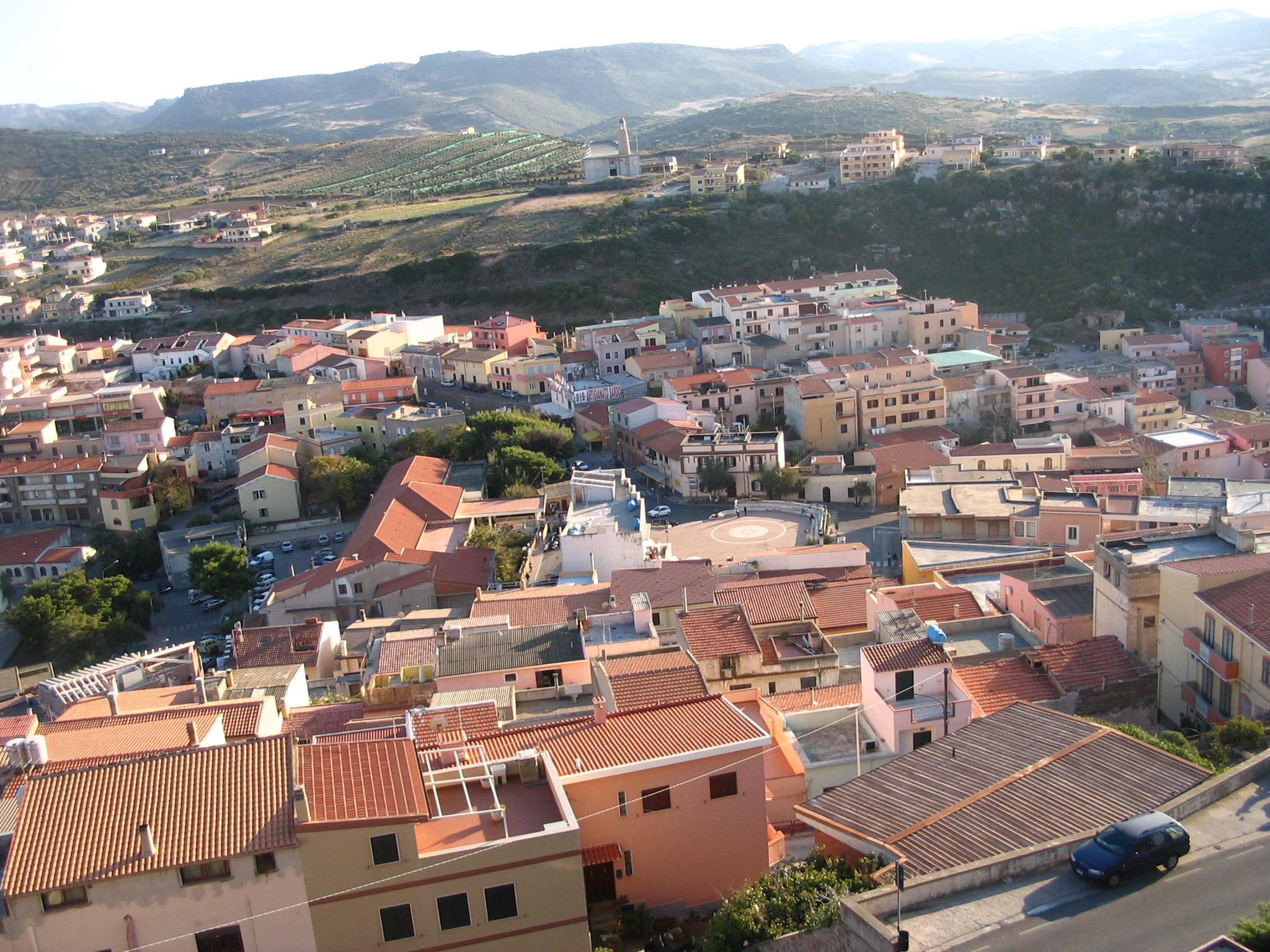 View from Castelsardo castel to south direction